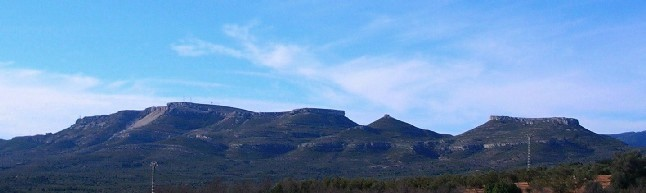 Moles the Xert. Mountain range close to Xert, Valencian Community